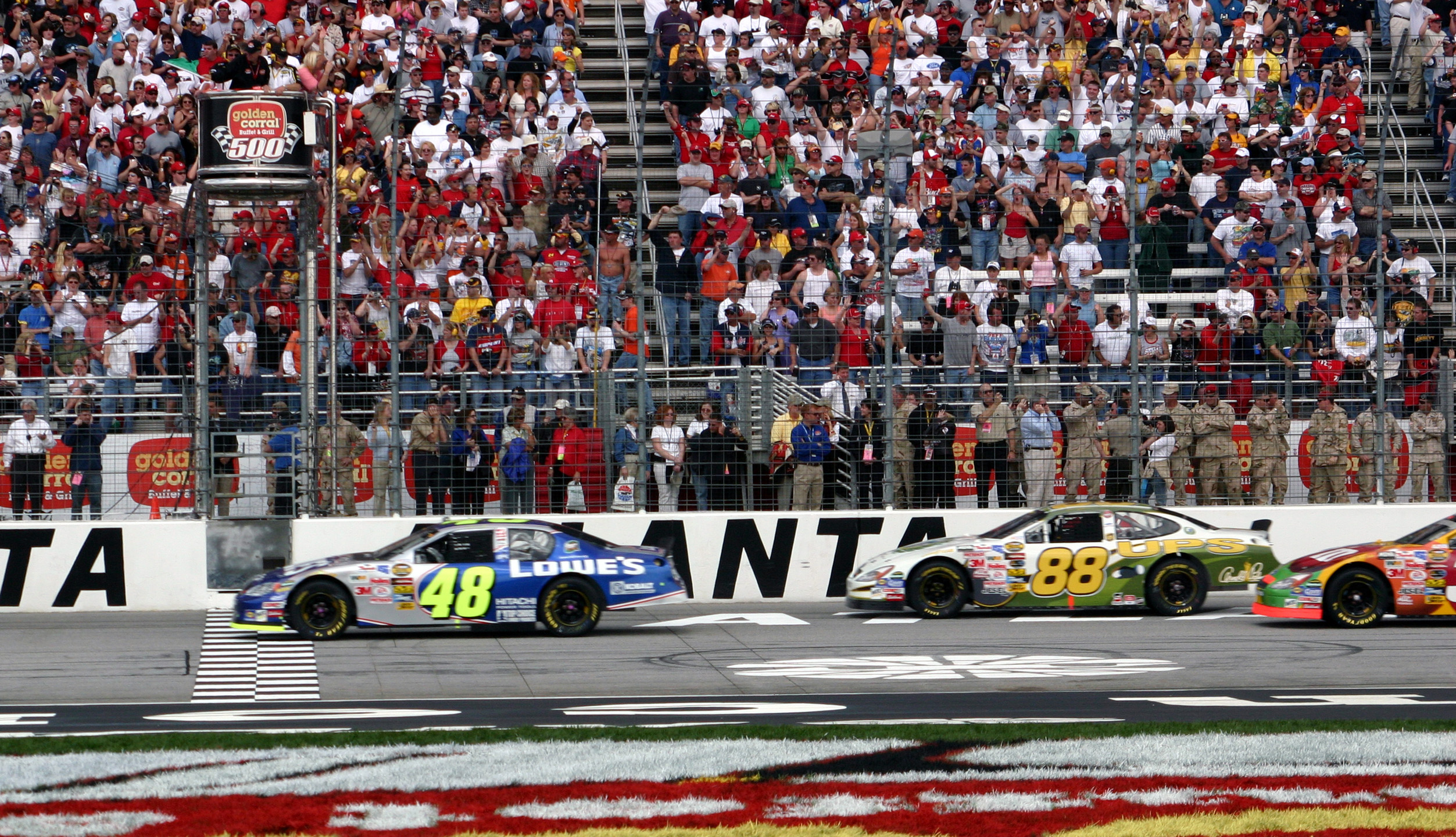 Twelve members of the U.S. Special Operations Command watch the start of the Golden Corral 500 from trackside. The twelve were introduced to the 100 thousand plus fans at the Atlanta Motor Speedway during a special SOF demonstration.